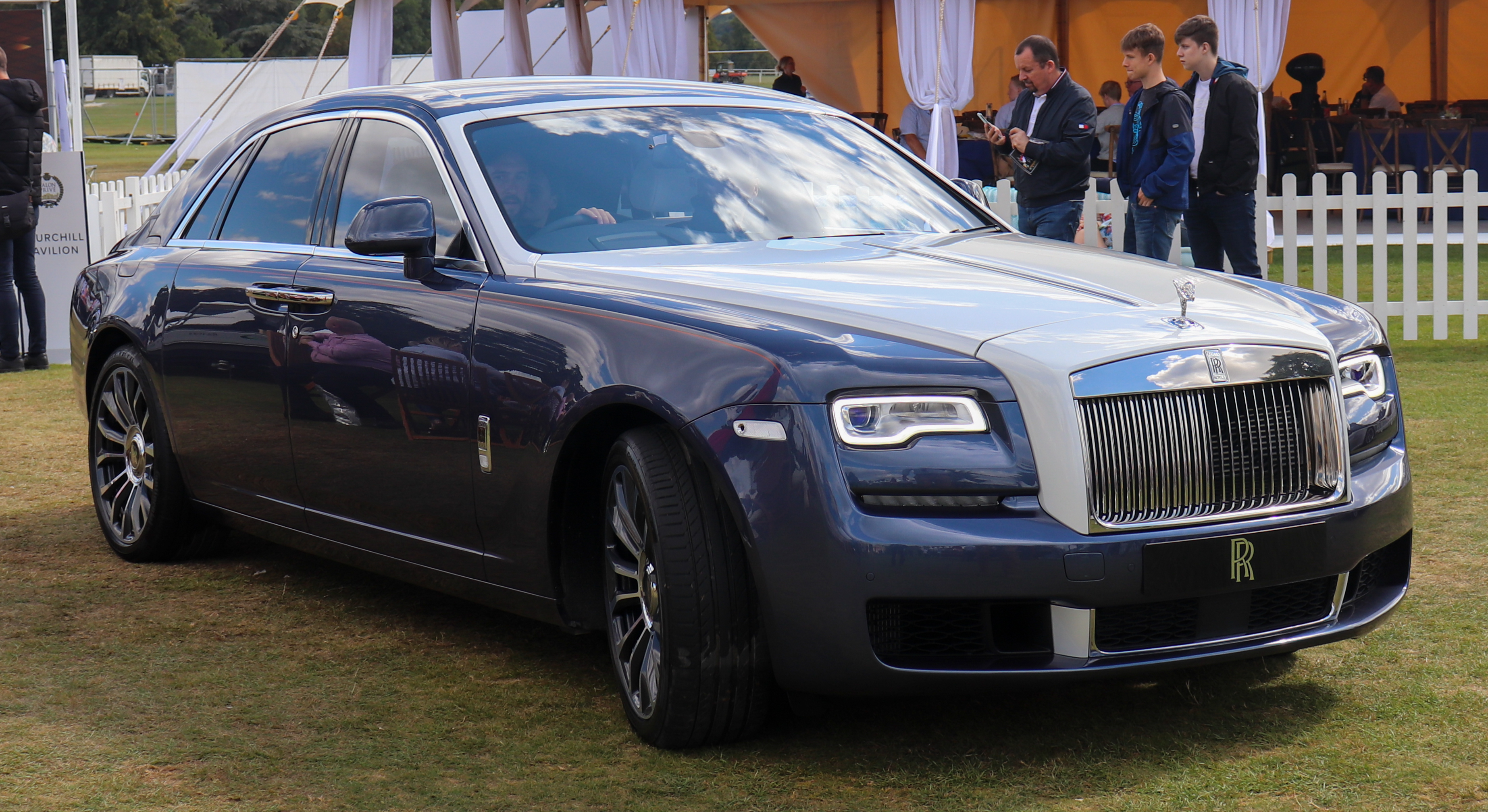 2019 Rolls-Royce Ghost Zenith Taken at the Salon Privé Concours d'Elegance Classic Car Motor Show 2019, Blenheim Palace